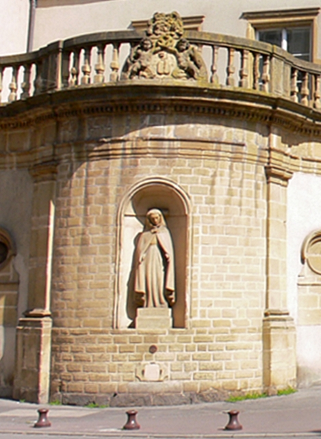 Statue of Our Lady of the Captives, which can be seen in the niche of the former hospice Saint-Nicolas in Metz. It represents sister Hélène Studler.